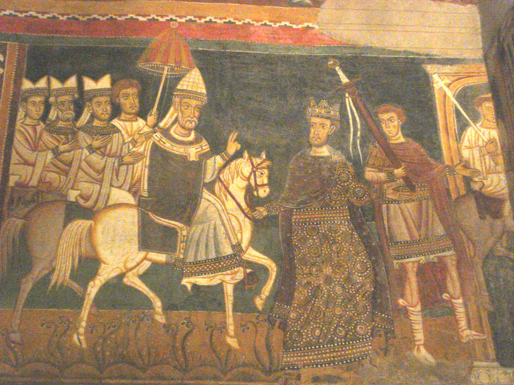 Constantin leads St Silvester's horse